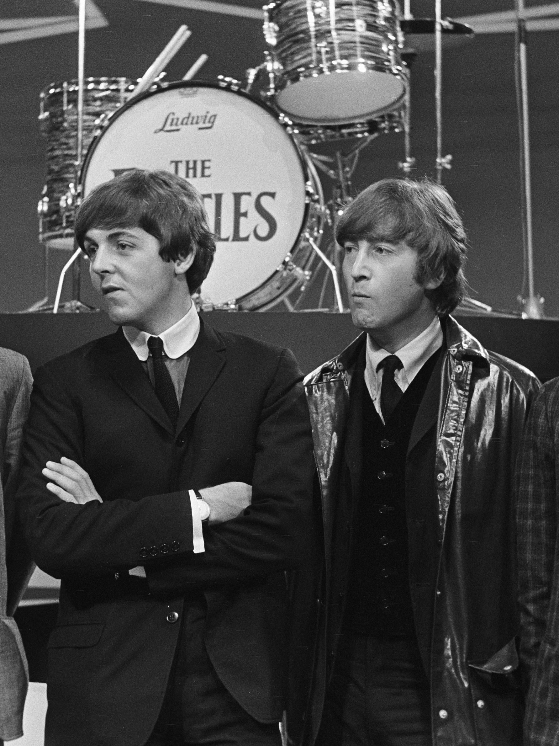 The Beatles tijdens televisieopnames in Hillegom (Treslong). Jimmie Nicol vervangt Ringo Starr.